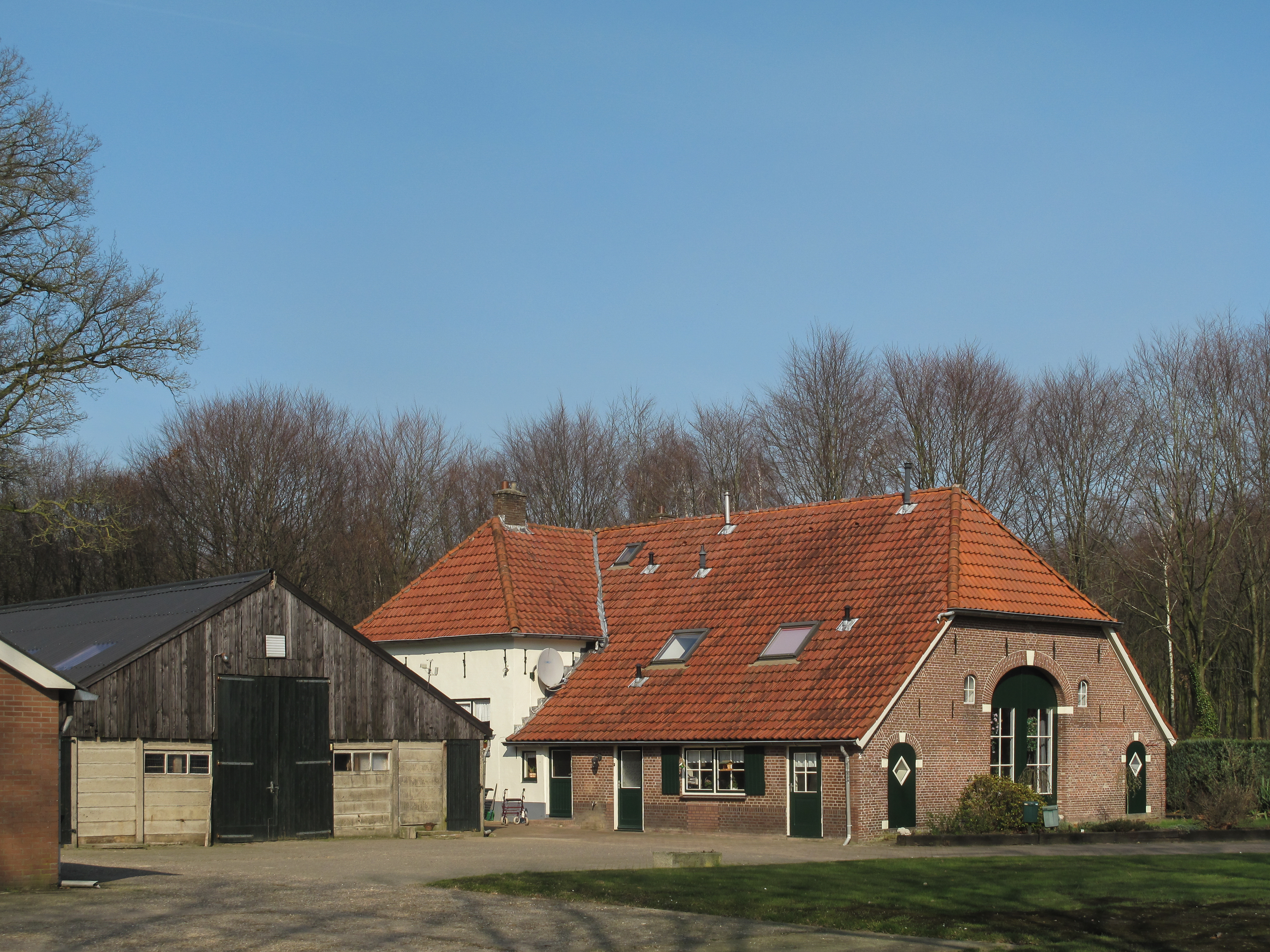 Voorstonden, farm